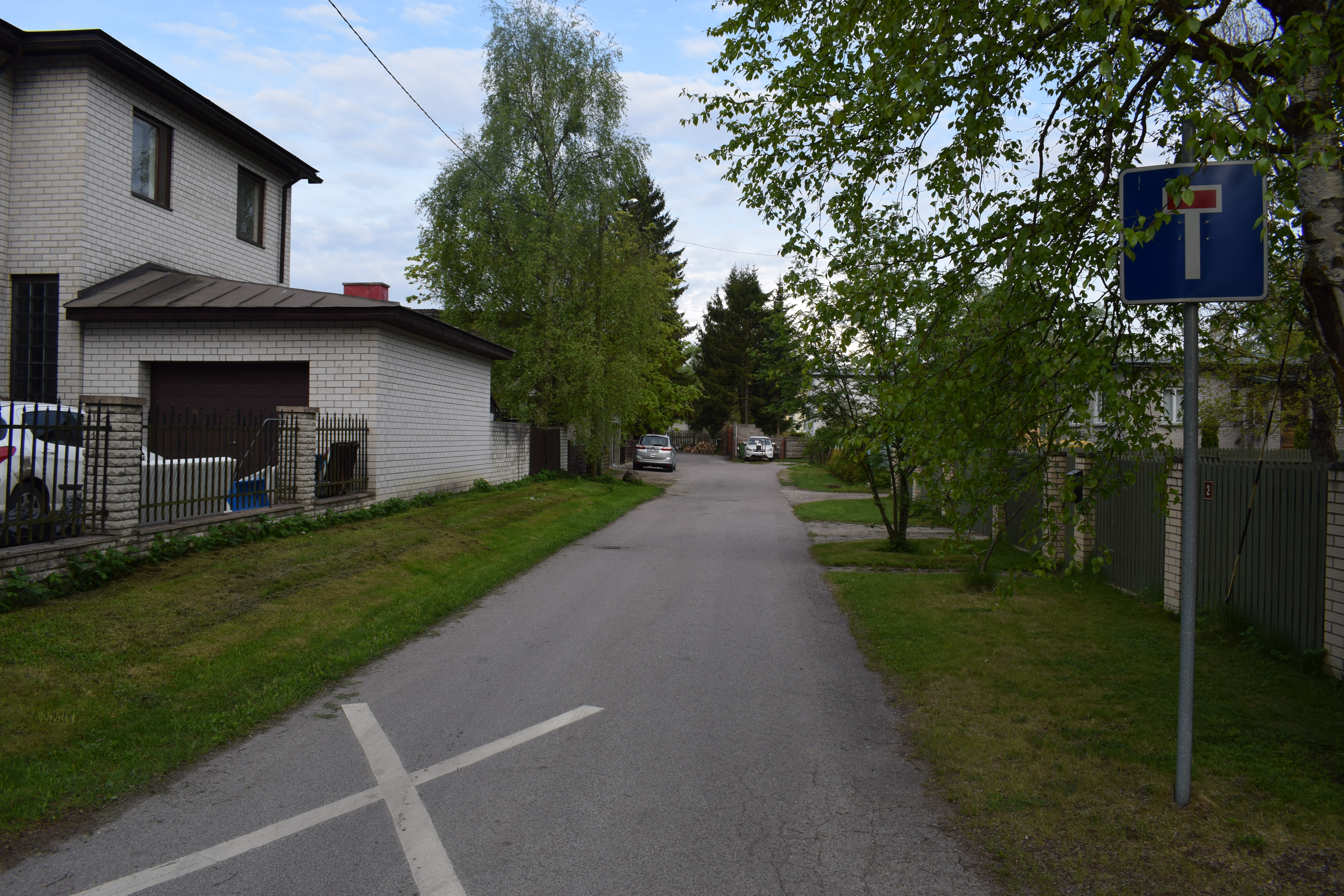 Jaanilille põik